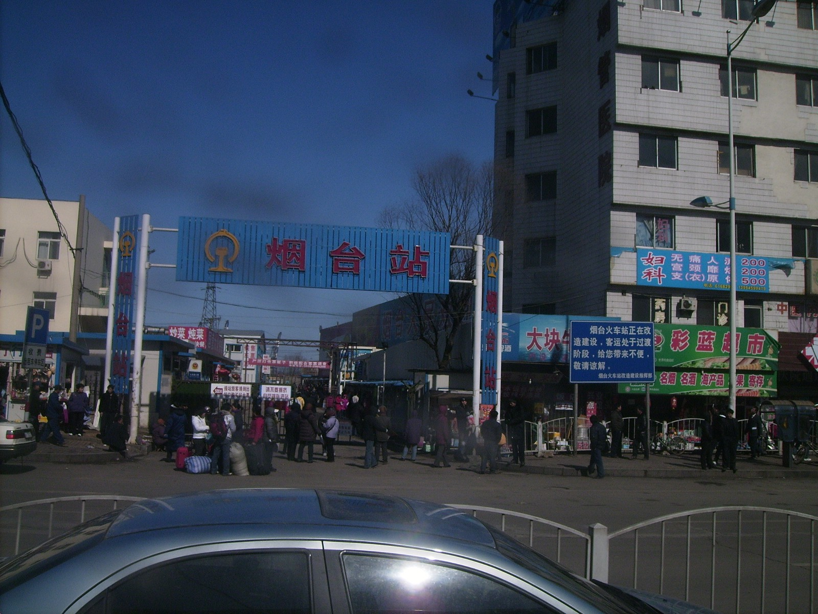 Yantai Railway Station (provisional)